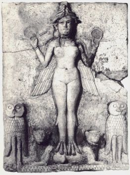 This is an image of a terracotta relief from the Old Babylonian period (now in the British museum) called the "Burney relief" or "Queen of the Night relief". The depicted figure of a winged goddess-figure with eagle's feet, flanked by owls and perched upon supine lions could be an aspect of the goddess Ishtar, Mesopotamian goddess of sexual love and war. However, her bird-feet and accompanying owls have suggested to some a connection with Lilitu (called Lilith in the Bible, and identified as the first wife of Adam in extra-Biblical Jewish folklore), though seemingly not the usual demonic Lilitu. The British Museum does not believe this is Lilitu or Lilith, nor do any modern scholars.